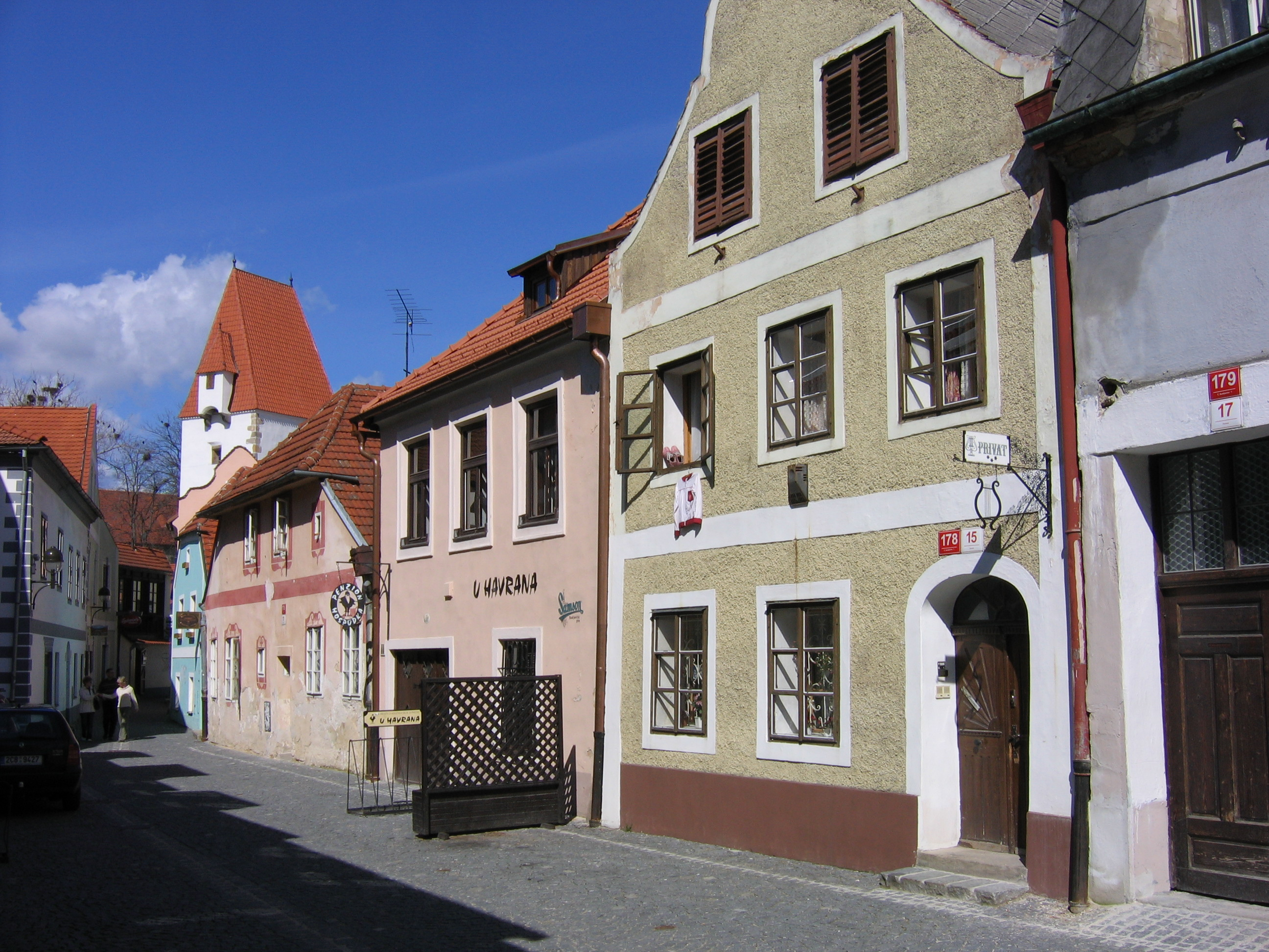 Ceske Budejovice, Czech Republic: Panska Street with colourful houses